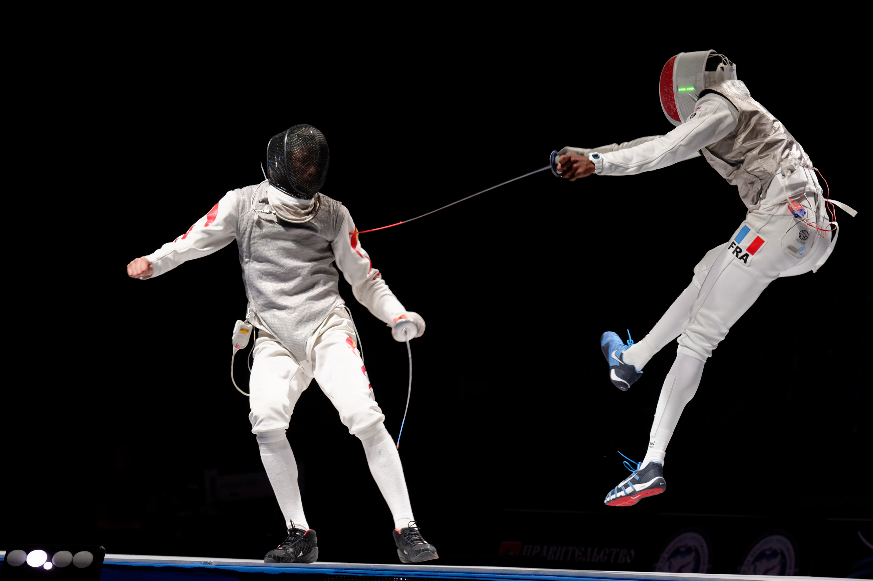 Enzo Lefort for France (L) hits China's Ma Jianfei (R) off-target during the final for the bronze medal in men's team foil at the 2015 World Fencing Championships on 19 July 2014 at the Olympic Stadium in Moscow.